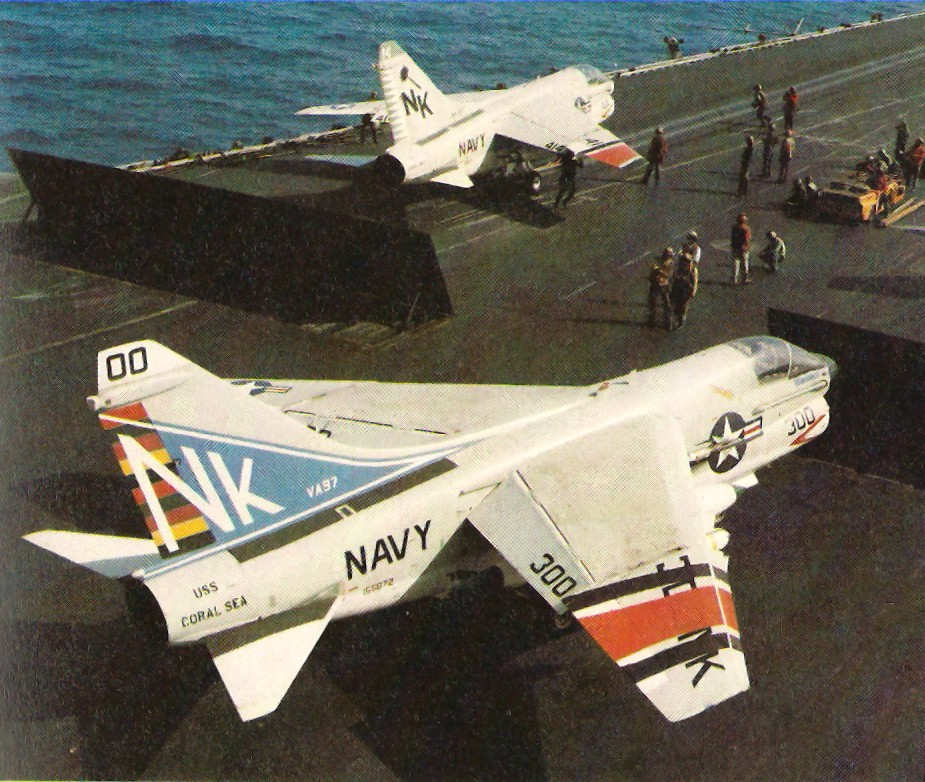 Two U.S. Navy LTV A-7E Corsair II aircraft of Carrier Air Wing 14 (CVW-14) on the aircraft carrier USS Coral Sea (CV-43) in April 1980. Both aircraft wear black-red-black identification stripes for the (later aborted) attempt to rescue U.S. hostages from Iran, code named "Operation Eagle Claw" (or "Evening Light"). The A-7E in the foreground (BuNo 156872) belonged to attack squadron VA-97 Warhawks and was the personal aircraft of the air group commander (CAG) of CVW-14 (hence the colourful tail markings). The A-7E in the background on the catapult was from VA-27 Royal Maces.